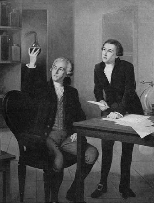 Eleuthère Irénée du Pont (1771—1834) and Antoine Laurent de Lavoisier (1743—1794) in laboratory work